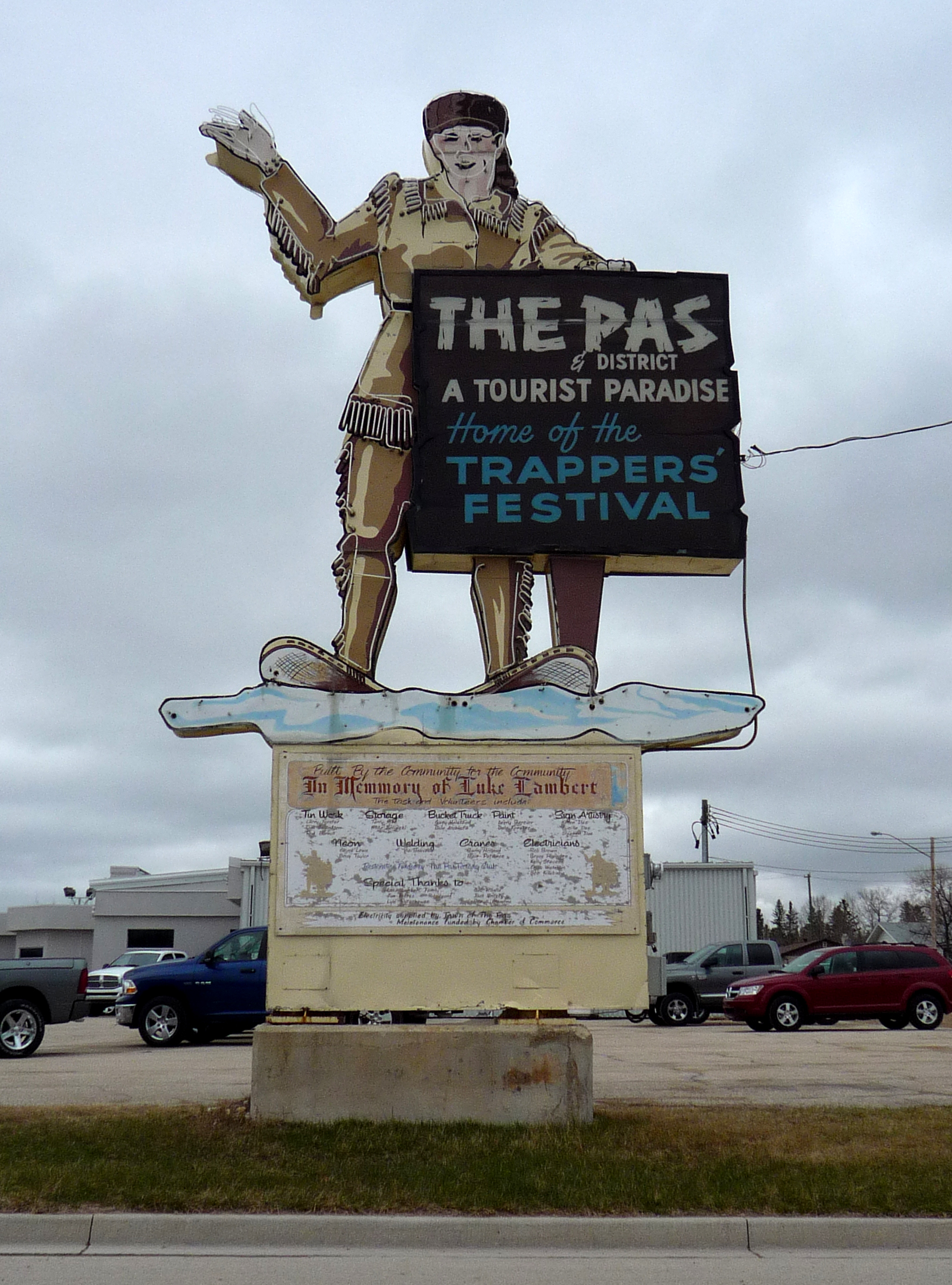 Welcome sign at the southern entrance to The Pas, Manitoba.